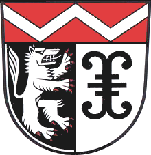 Coat of arms of Wölfis